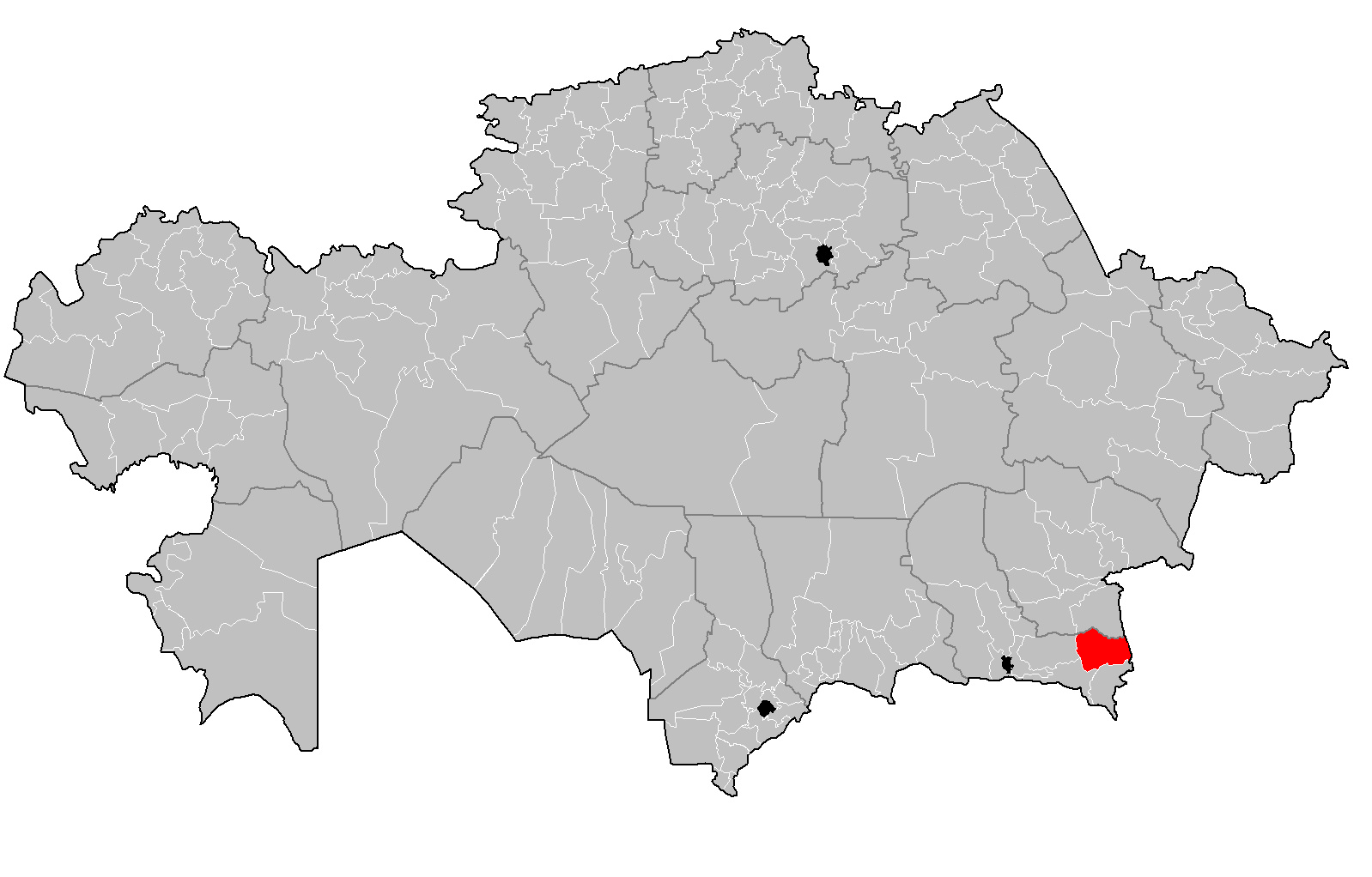 Map of the rayons of Kazakhstan. Created by Rarelibra 16:49, 3 August 2007 (UTC) for public domain use, using MapInfo Professional v8.5 and various mapping resources.